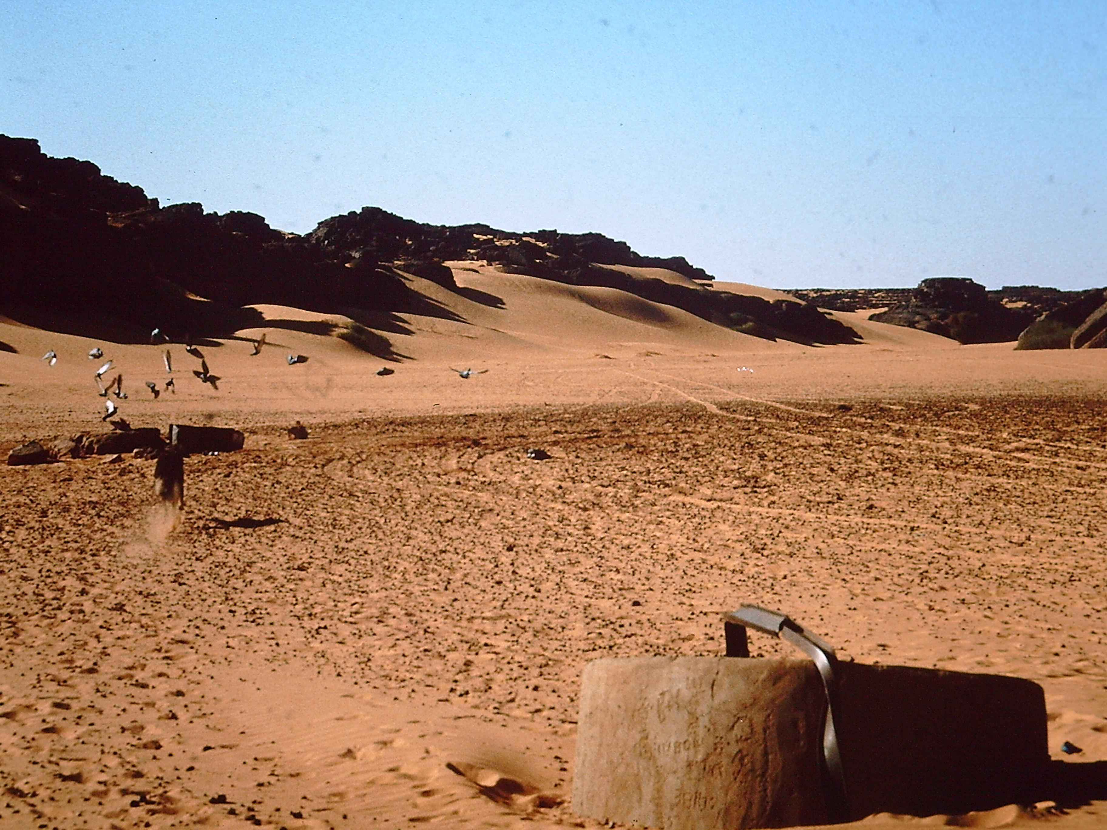 Water Source Tim Missao between Bordj Mokhtar and Timiaouine. There was good water available on 1985/01/20, no water next year, when we visited the place again, but then many dead animals close to the well.